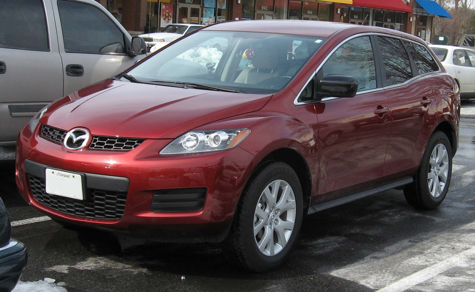 2007 Mazda CX-7 photographed in USA.